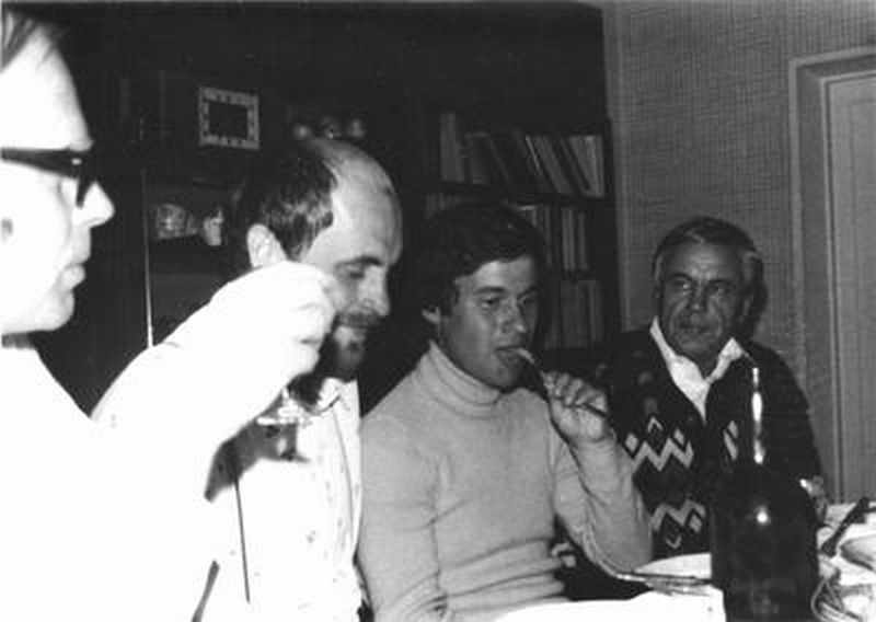 From left: Helmut Koch, Fedor Bogomolov, A. N. Todorov, Igor Shafarevich in the flat of Shafarevich